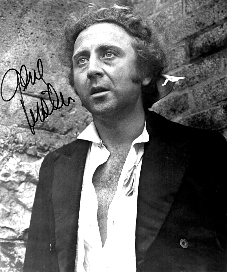 Studio publicity photo of Gene Wilder in film Quackster Fortune has a Cousin in the Bronx (1970).